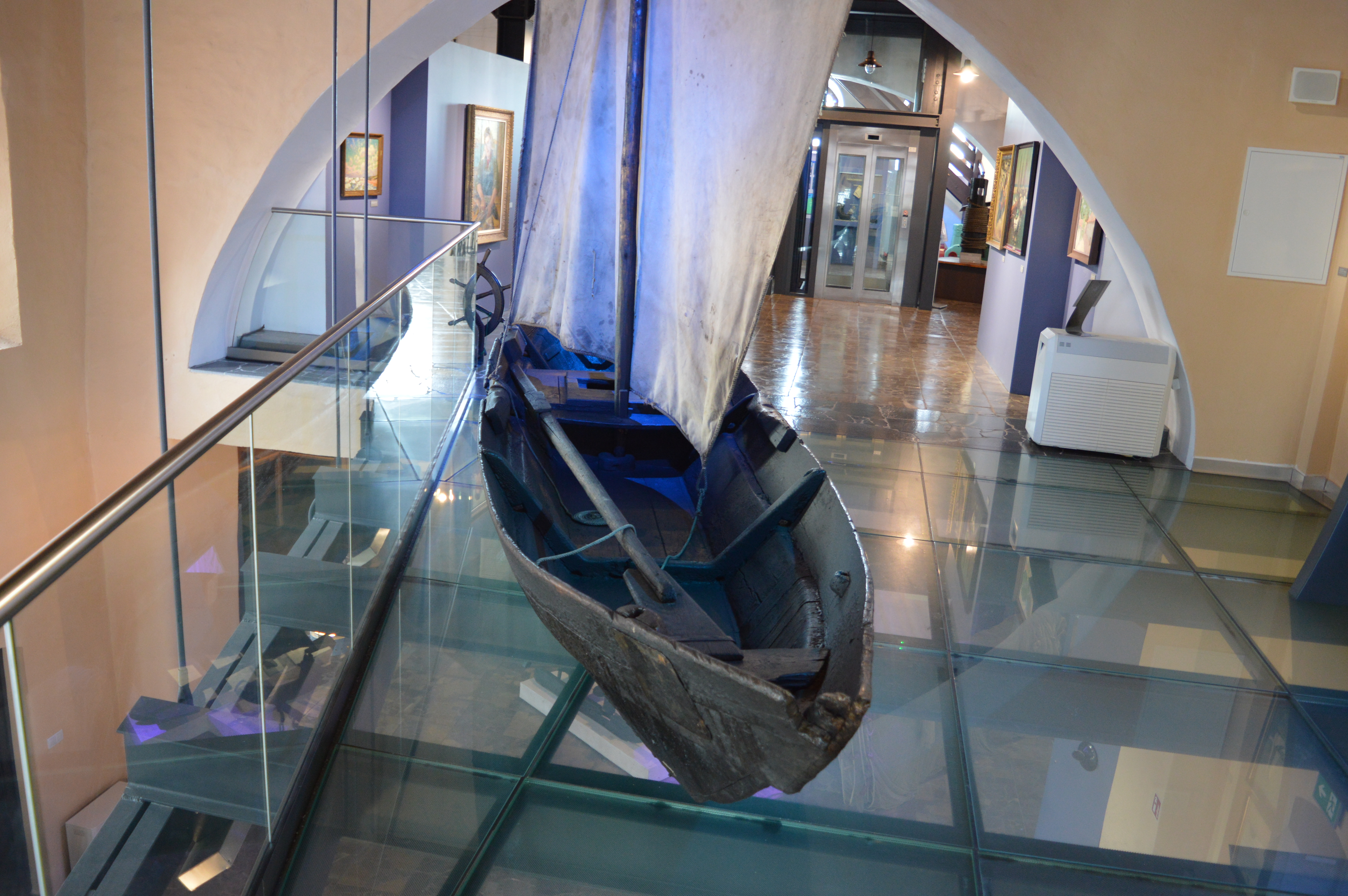 Czołn łebski - fishing boat formerly used in vicinity of Łebsko Lake (Poland). Visible are vertical planks, charakteristic for this type of boat. Exposition in Fisheries Museum in Hel (branch of National Maritime Museum in Gdańsk), Poland.